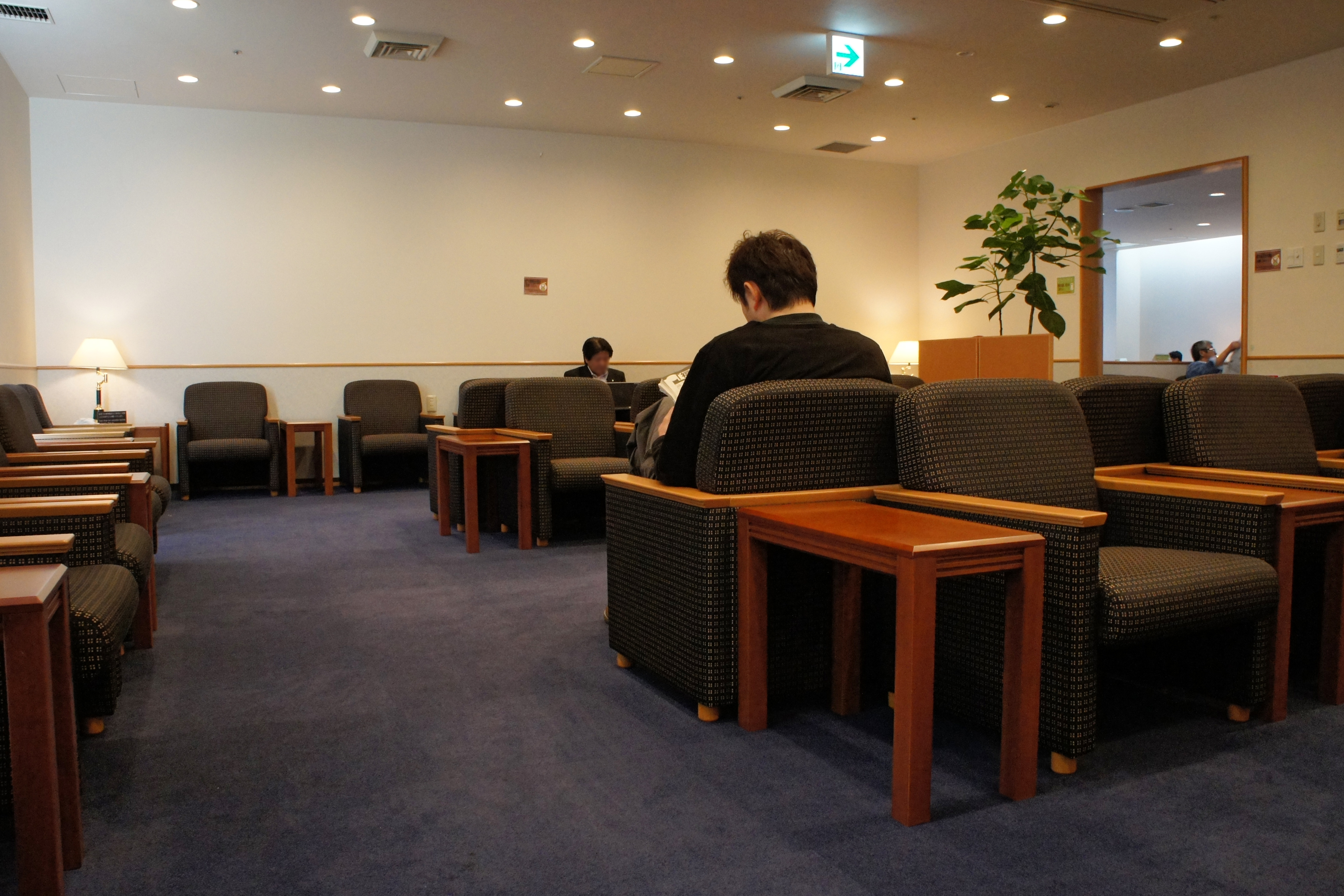 SAKURA Lounge of Naha Airport in Naha, Okinawa prefecture, Japan